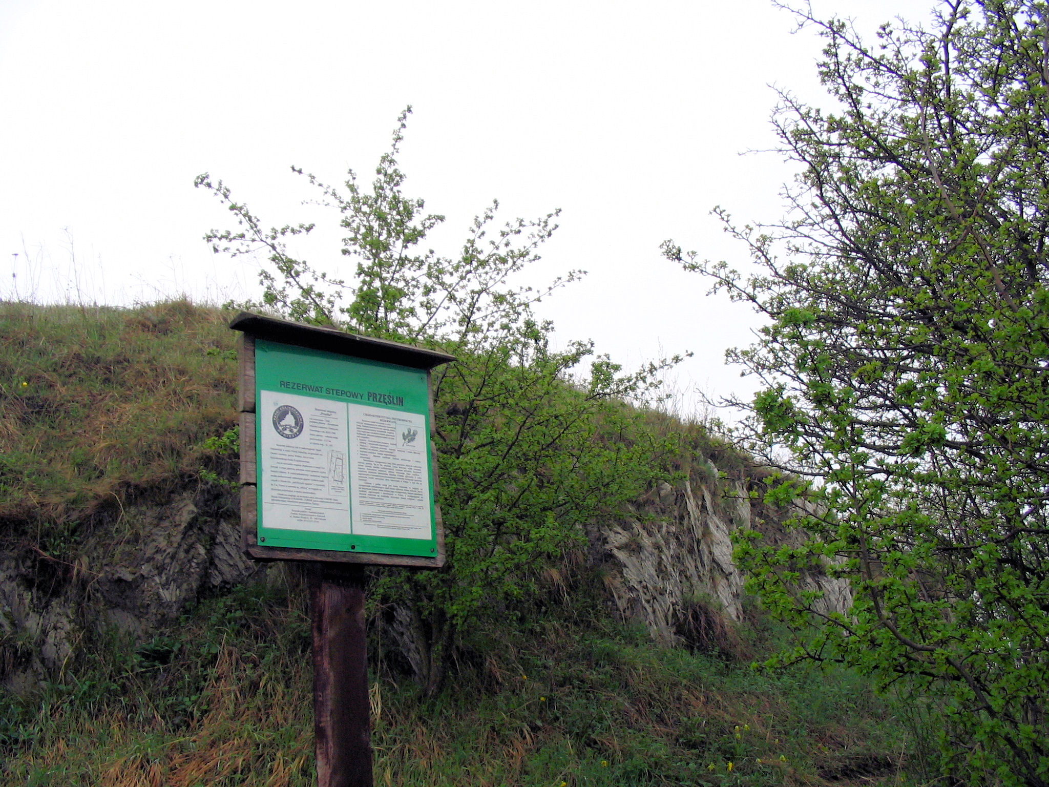 Przęślin nature reserve, Świętokrzyskie Mountains, Poland, 2006 yr. Aparat/Camera: Canon PowerShot A75